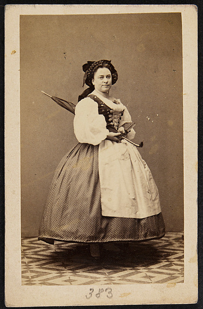 Ludwig Angerer Therese Braunecker-Schäfer